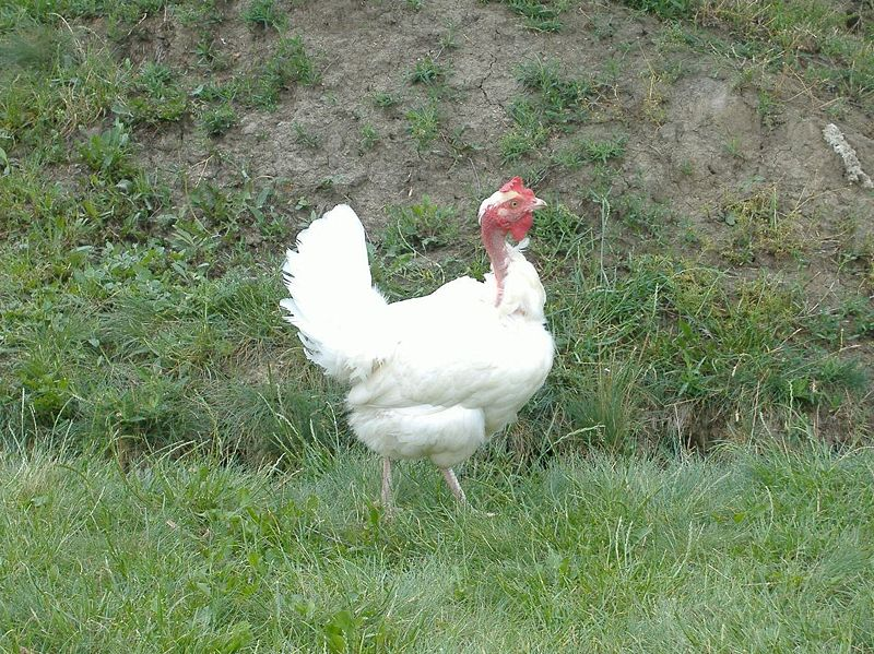 Erdelys white hen.